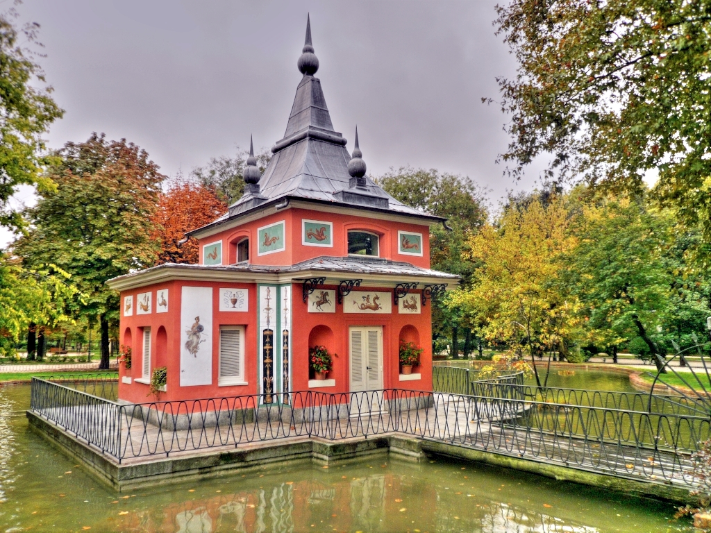 Casita del Pescador ("Fisherman's Cottage") in the Retiro Park (Jardines del Buen Retiro) in Madrid (Spain).